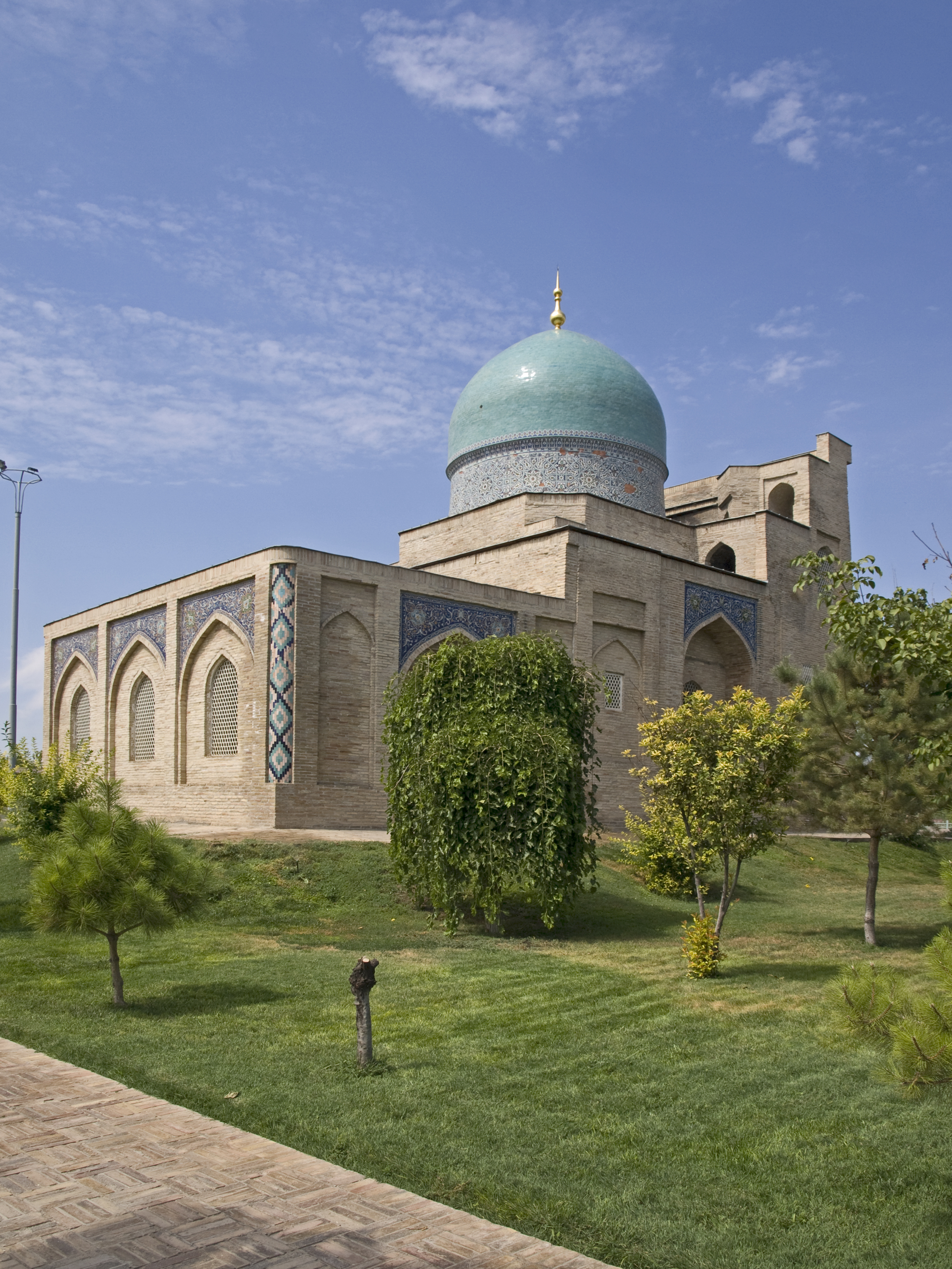 Rear view of Kaffal Shashi Mausoleum, Tashkent